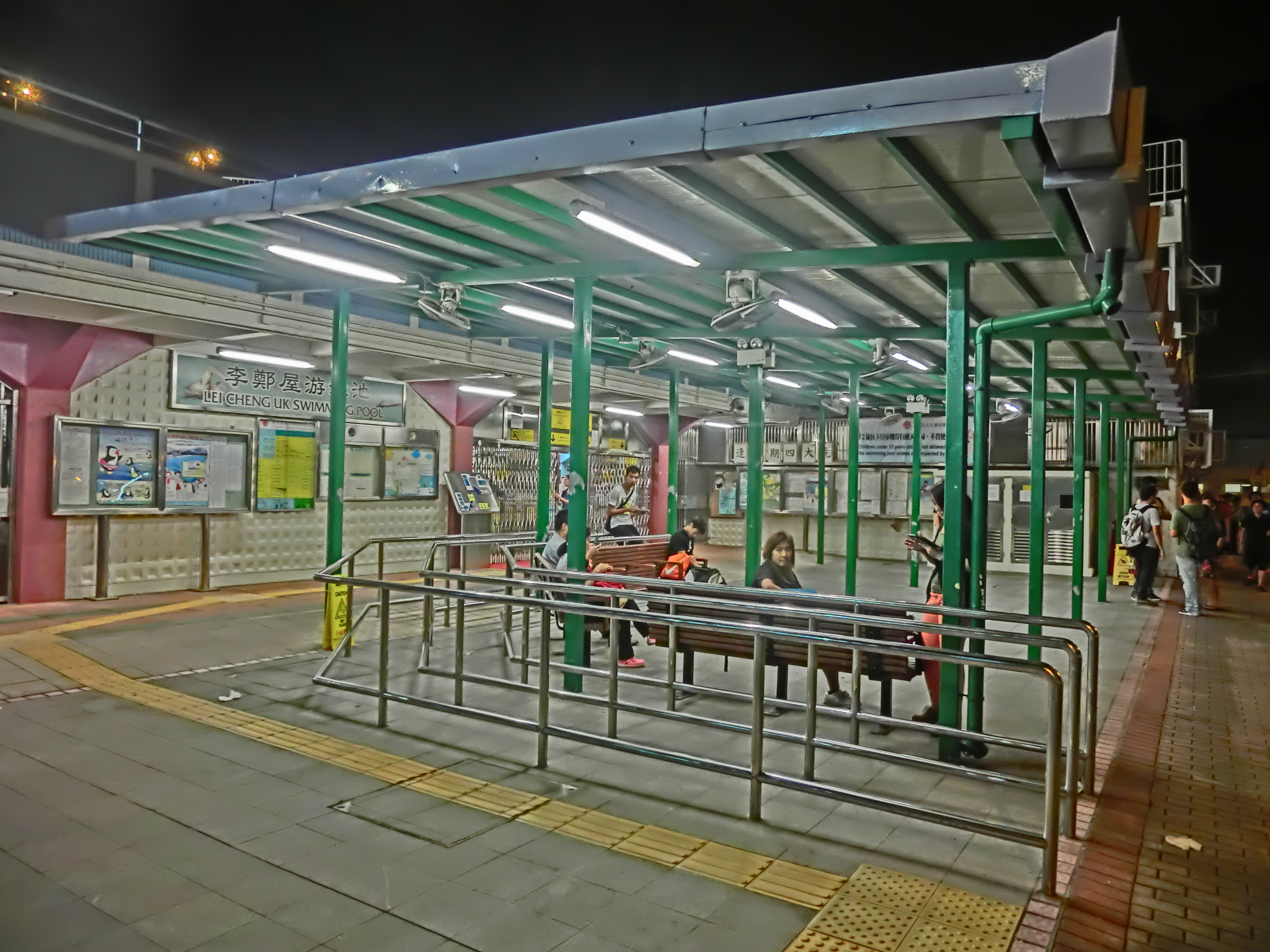 李鄭屋游泳池, Lei Cheng Uk Swimming Pool, Sham Shui Po, Hong Kong